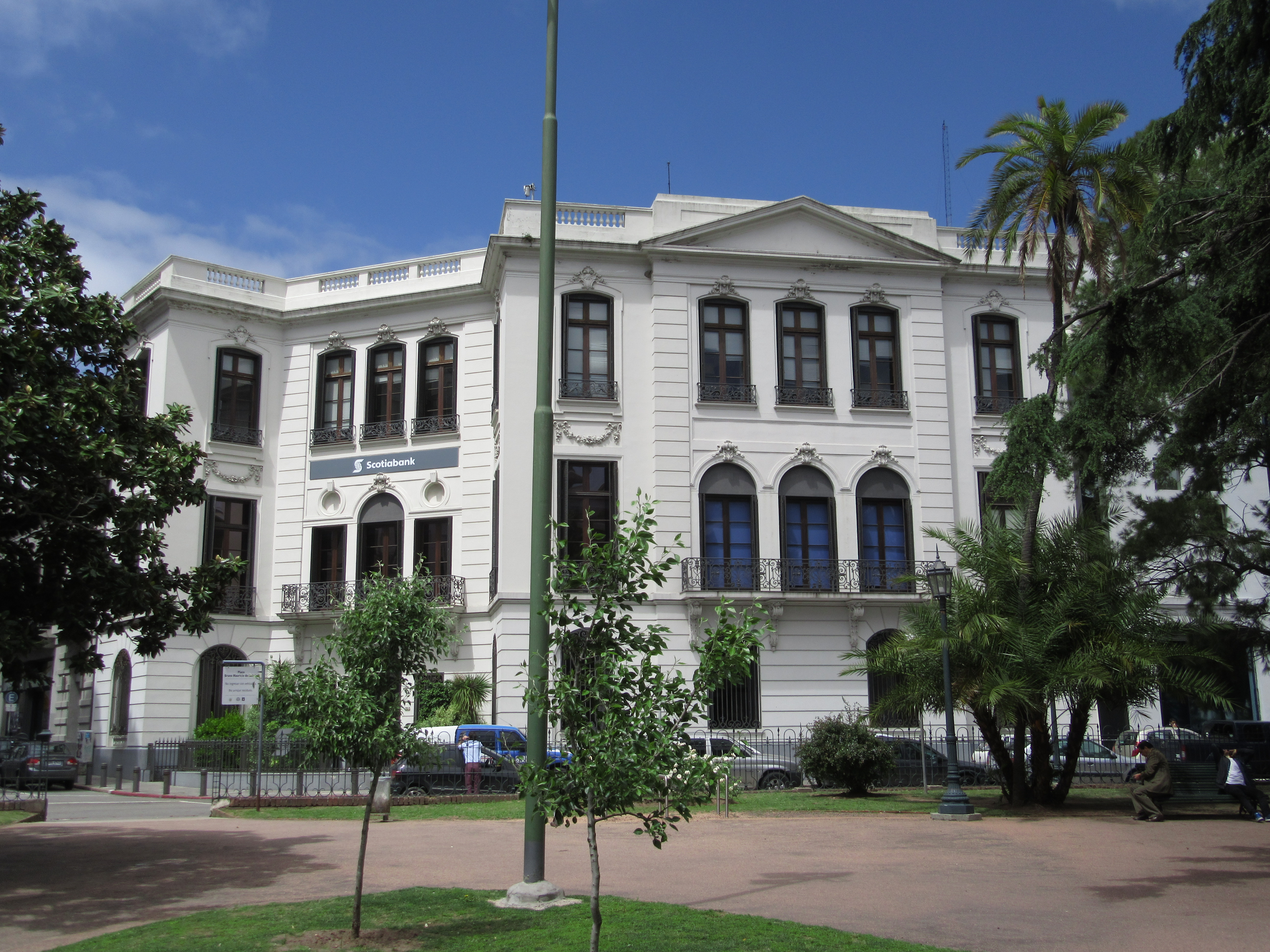 Montevideo